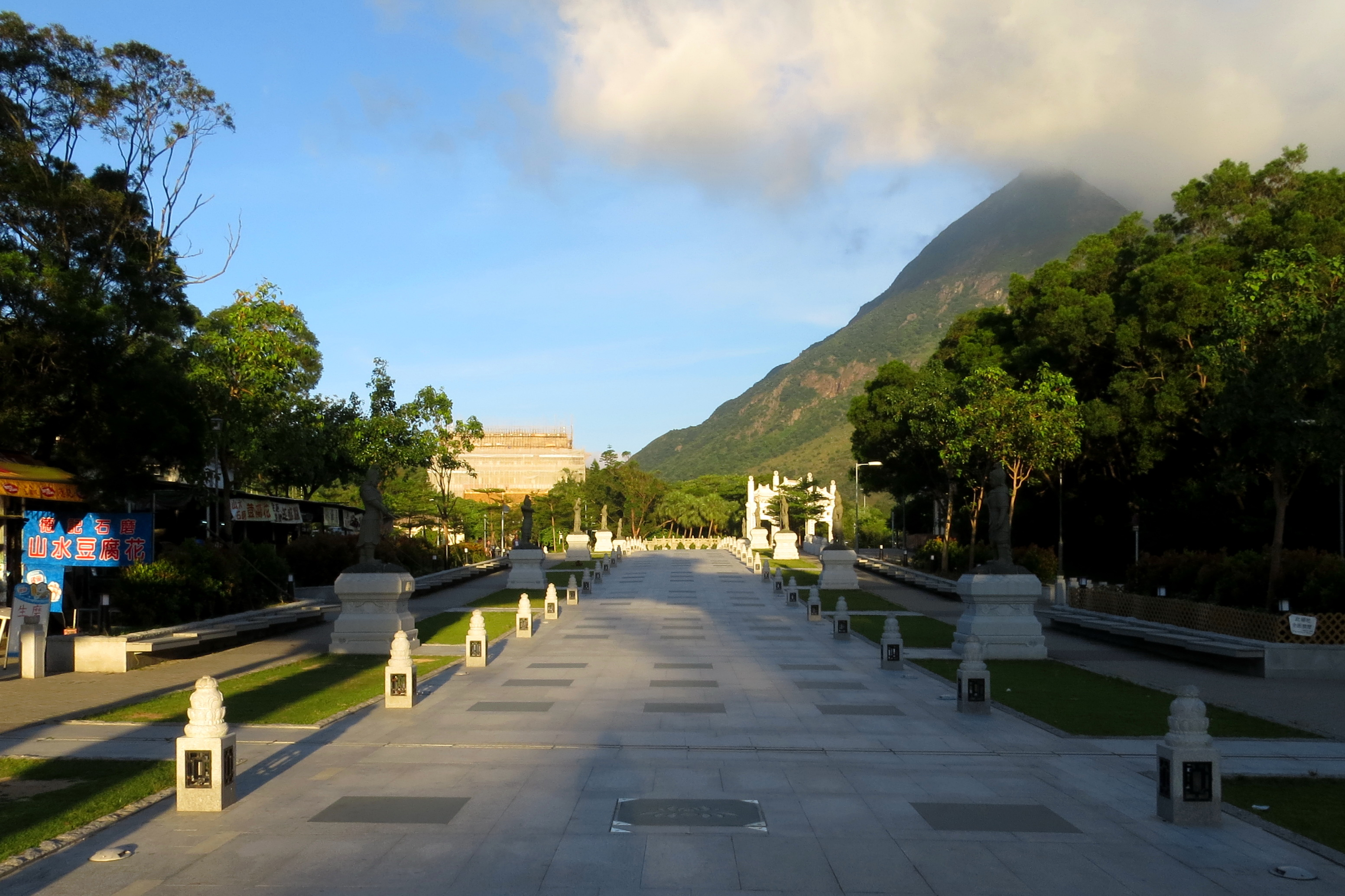 Ngong Ping Piazza in Lantau Island, Hong Kong. The 120-metre Bodhi Path is flanked by statues of the “12 divine generals” and 40 lotus-shaped stone lanterns on both sides.